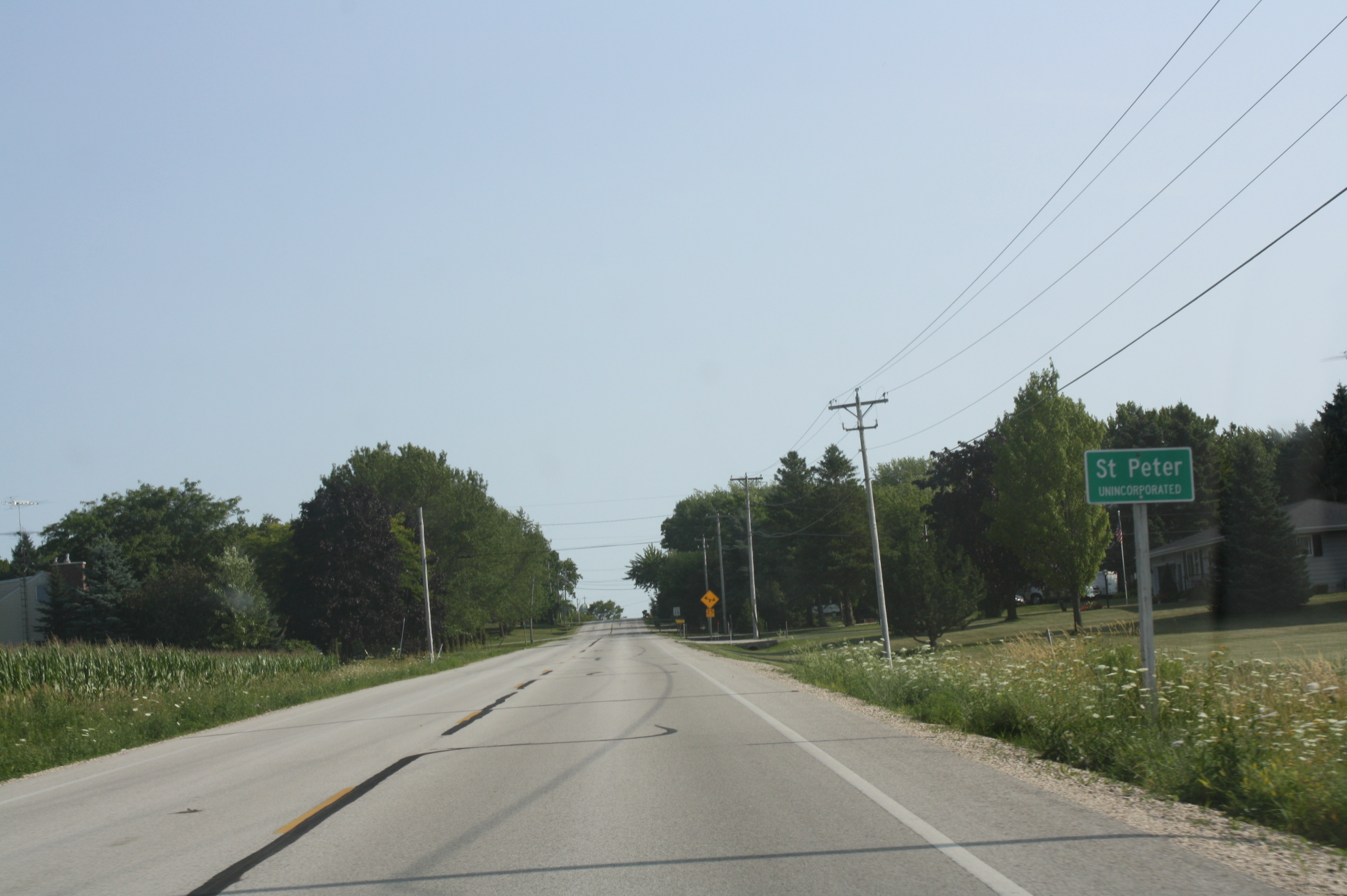 Looking south at the sign for the unincorporated community St. Peter, Wisconsin in Fond du Lac County, Wisconsin.